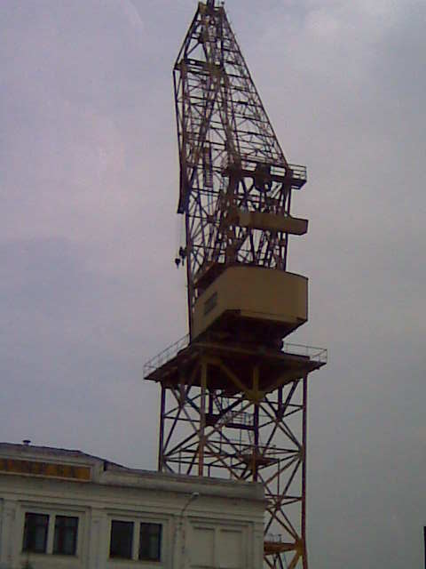 Crane in the Astander shipworks, Astillero (Cantabria)